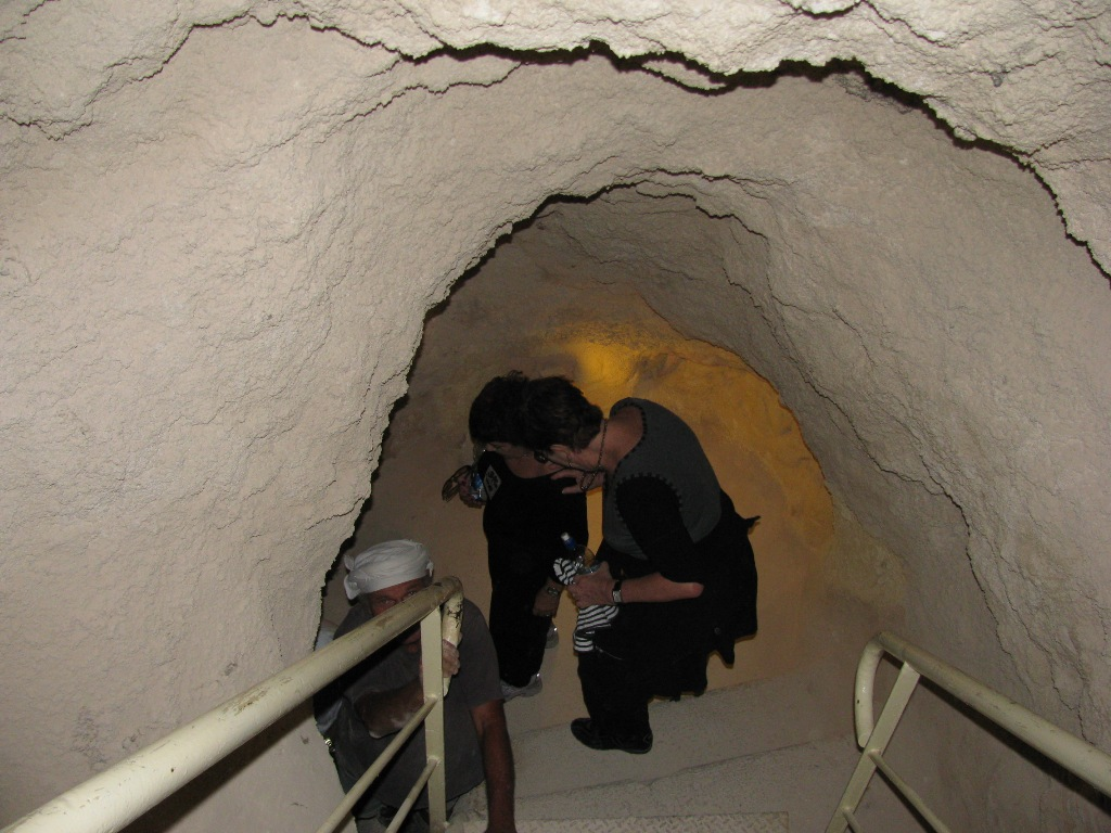 Reduction tunnels from the Bar - Kochba